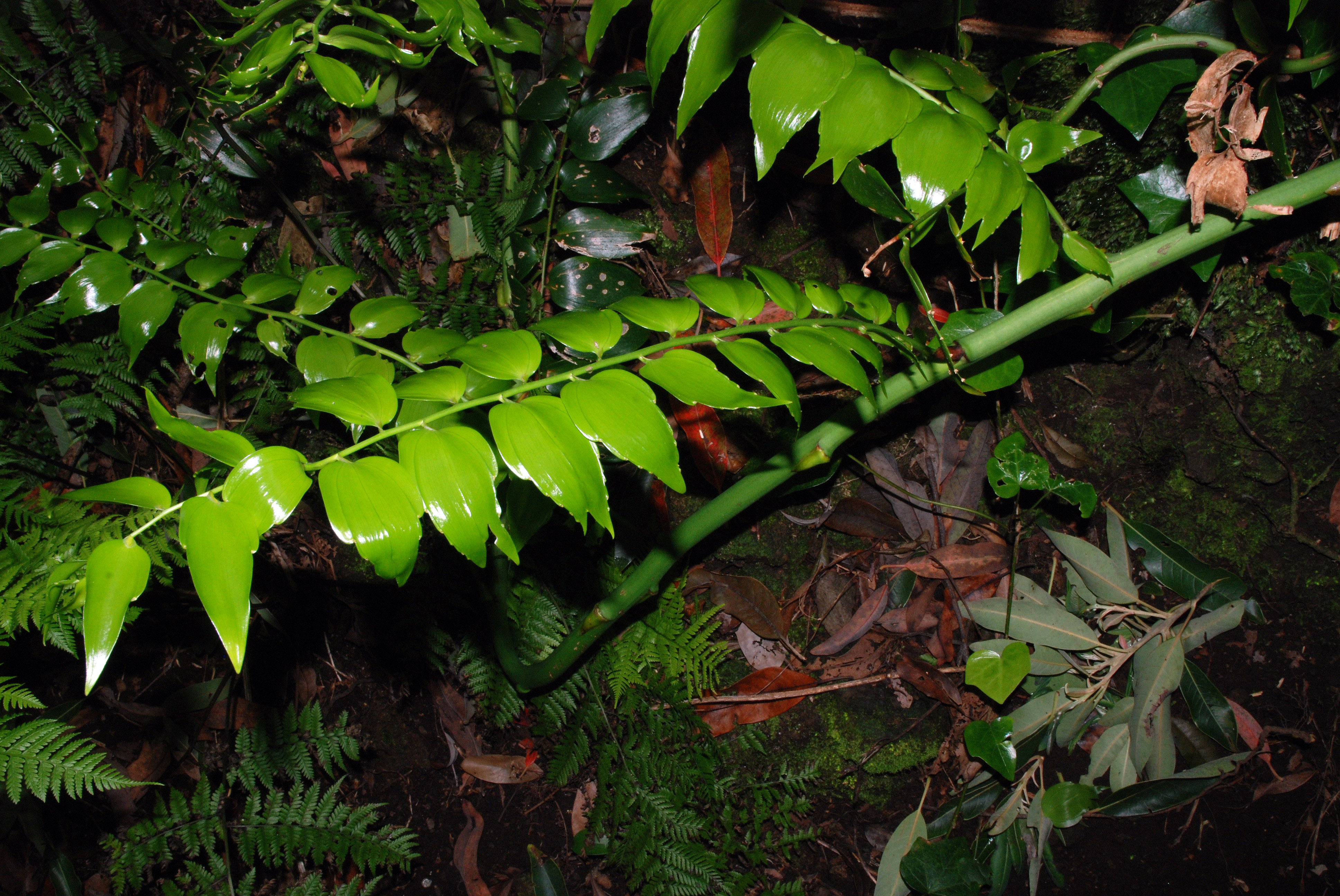 Semele androgyna, Cubo de la Galga, La Palma, Spain